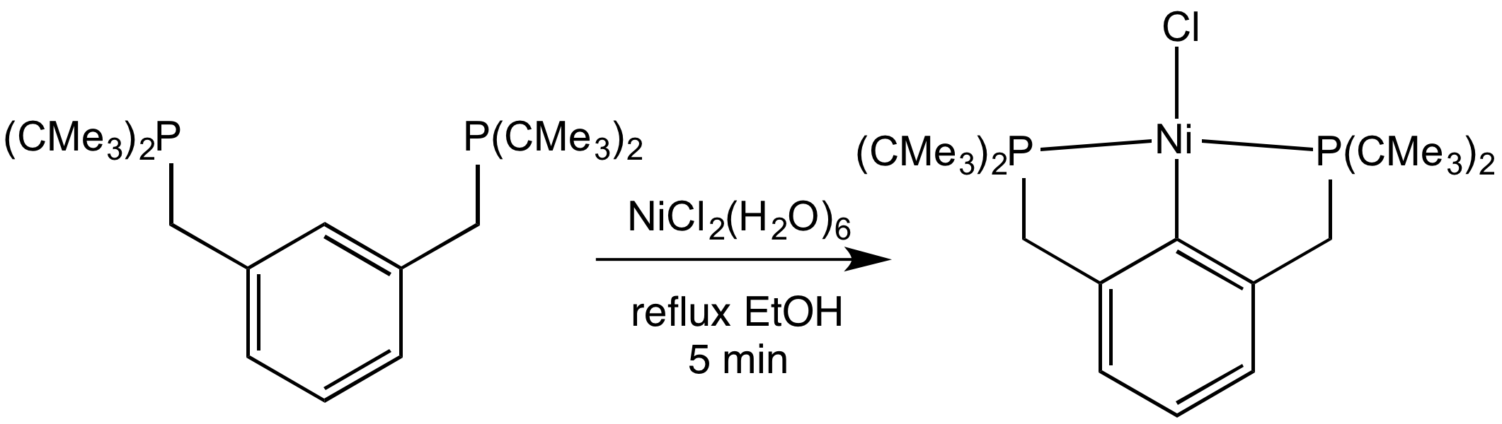 Pincer complex prepared by Shaw et al.